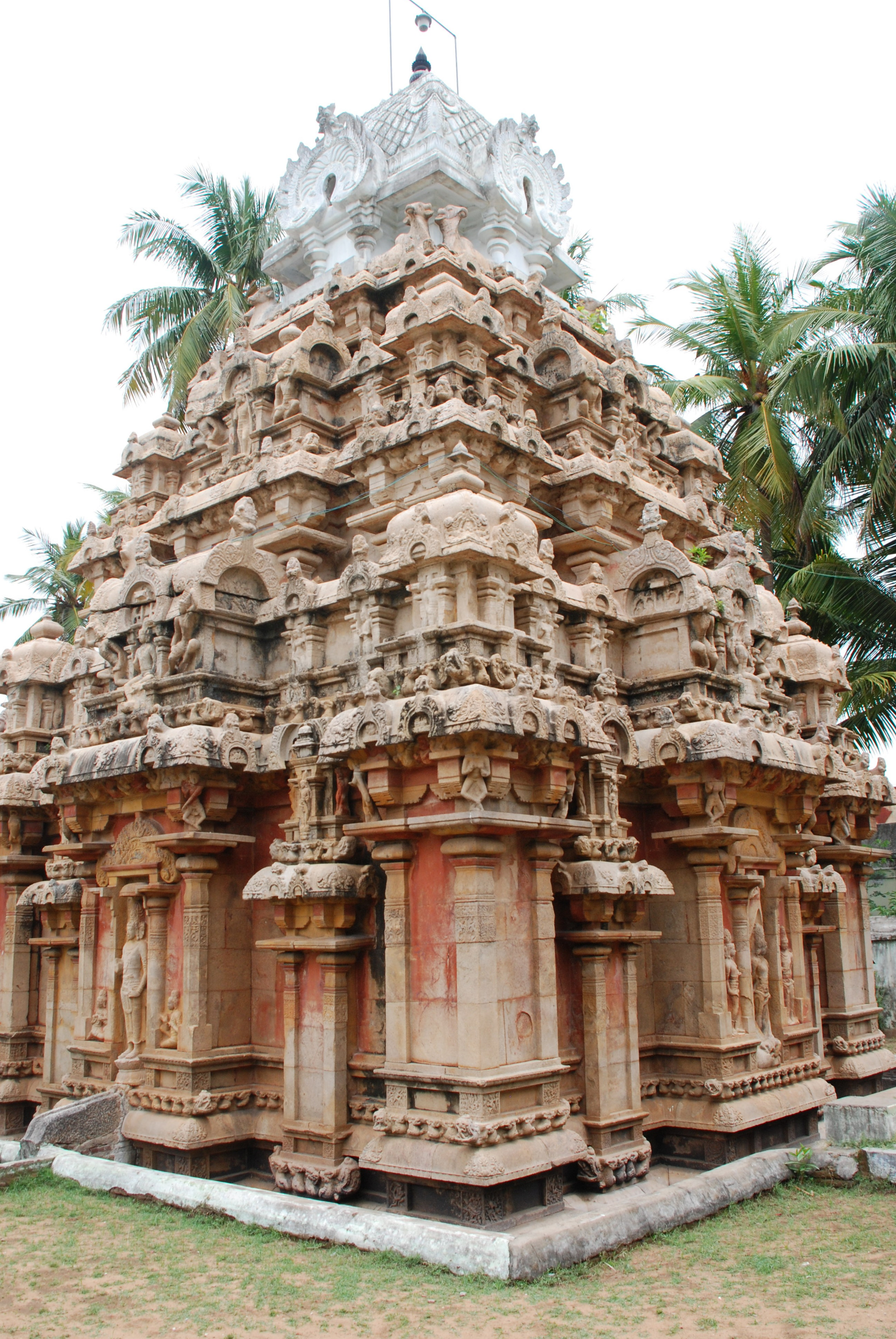 View of the Pullamangai Temple at Pasupathikoil, Thanjavur, Tamil Nadu